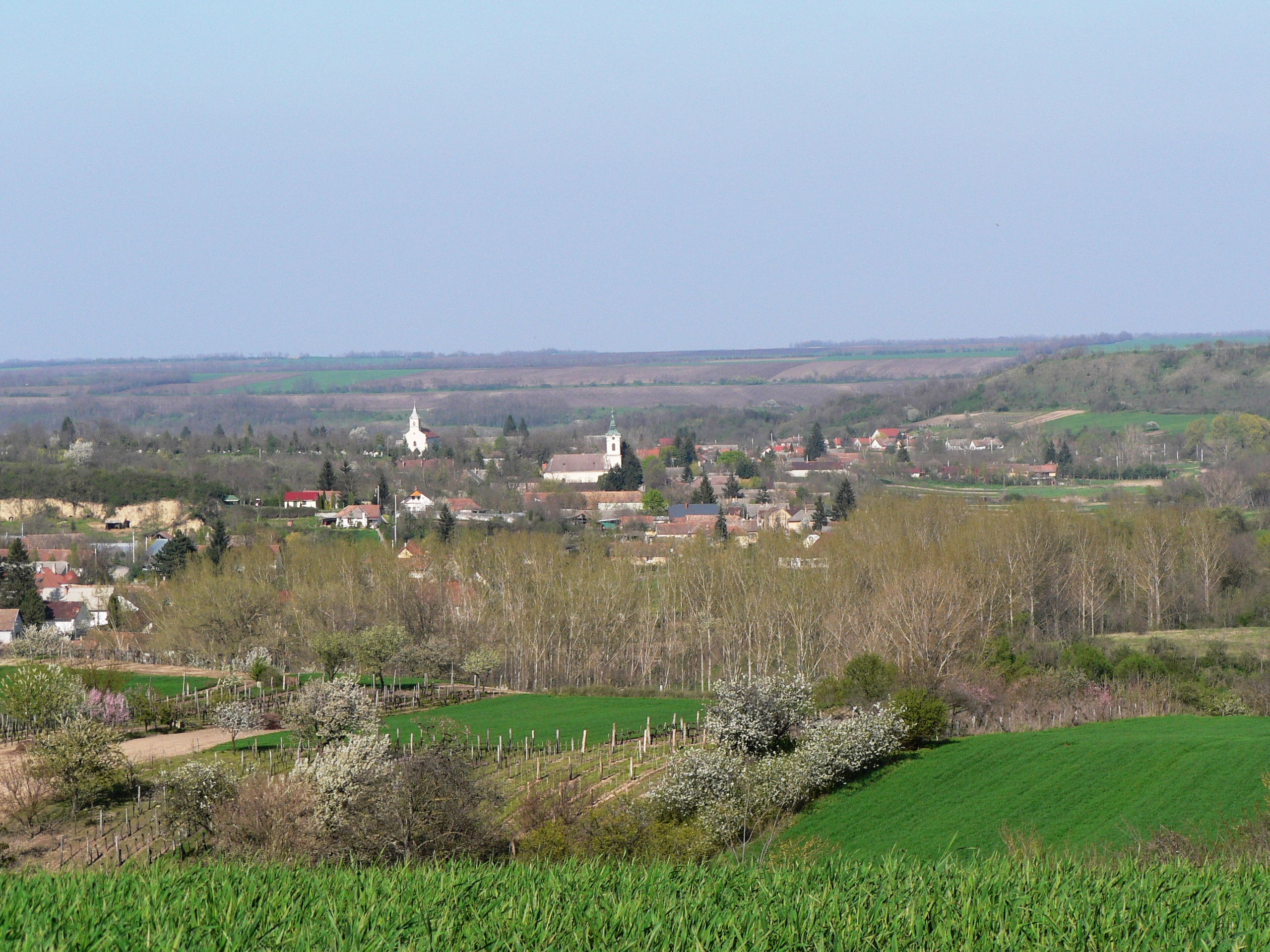 View of Felsőnyék